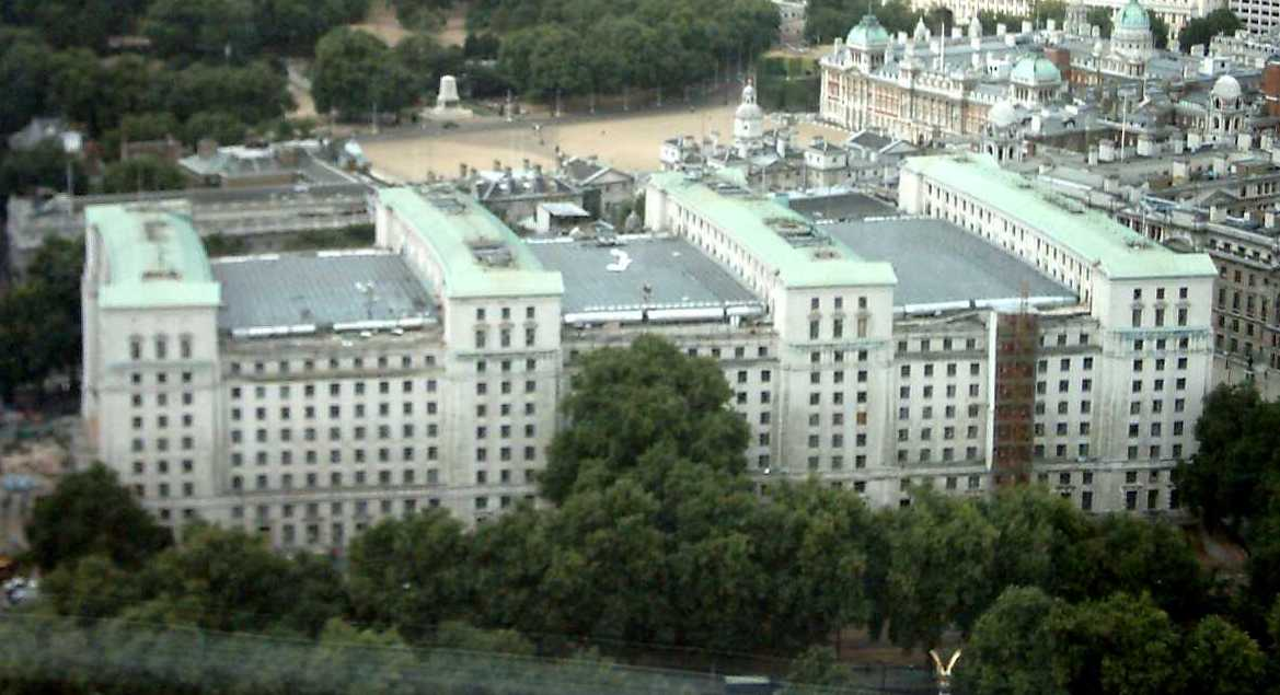 Ministry of Defence, Whitehall, London; viewed from the London Eye.